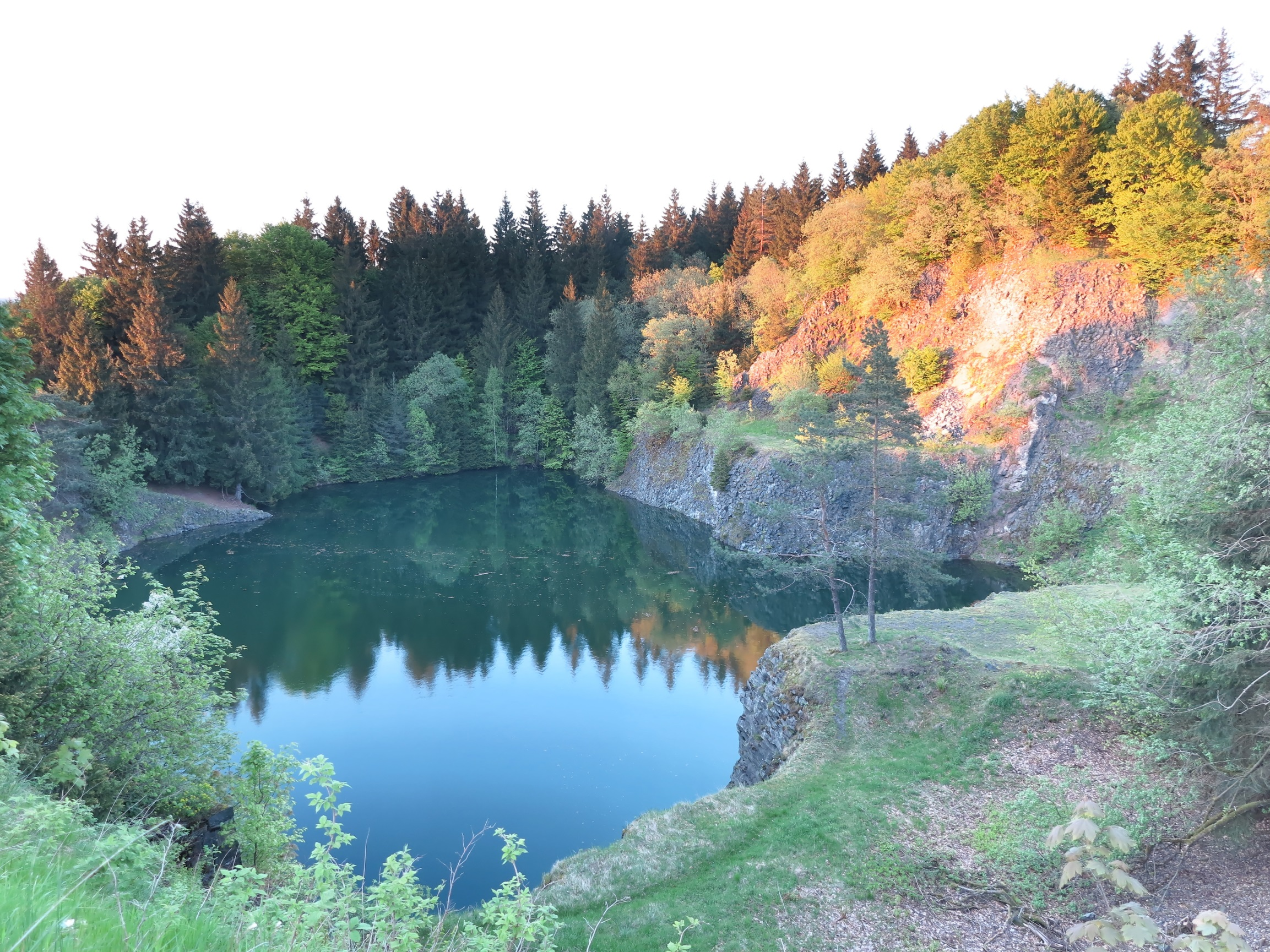 "Tintenfass", Lake at Stone quarry (Basalt)